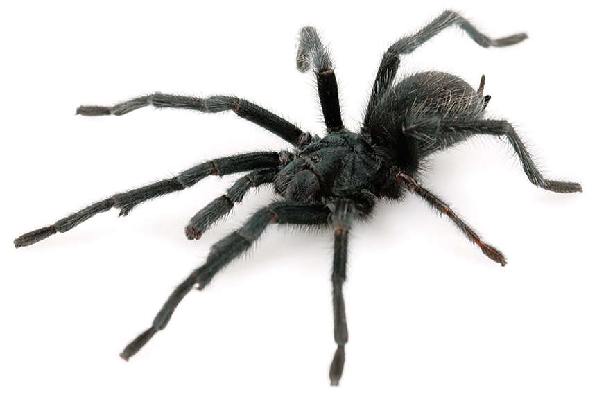 Aphonopelma mojave male